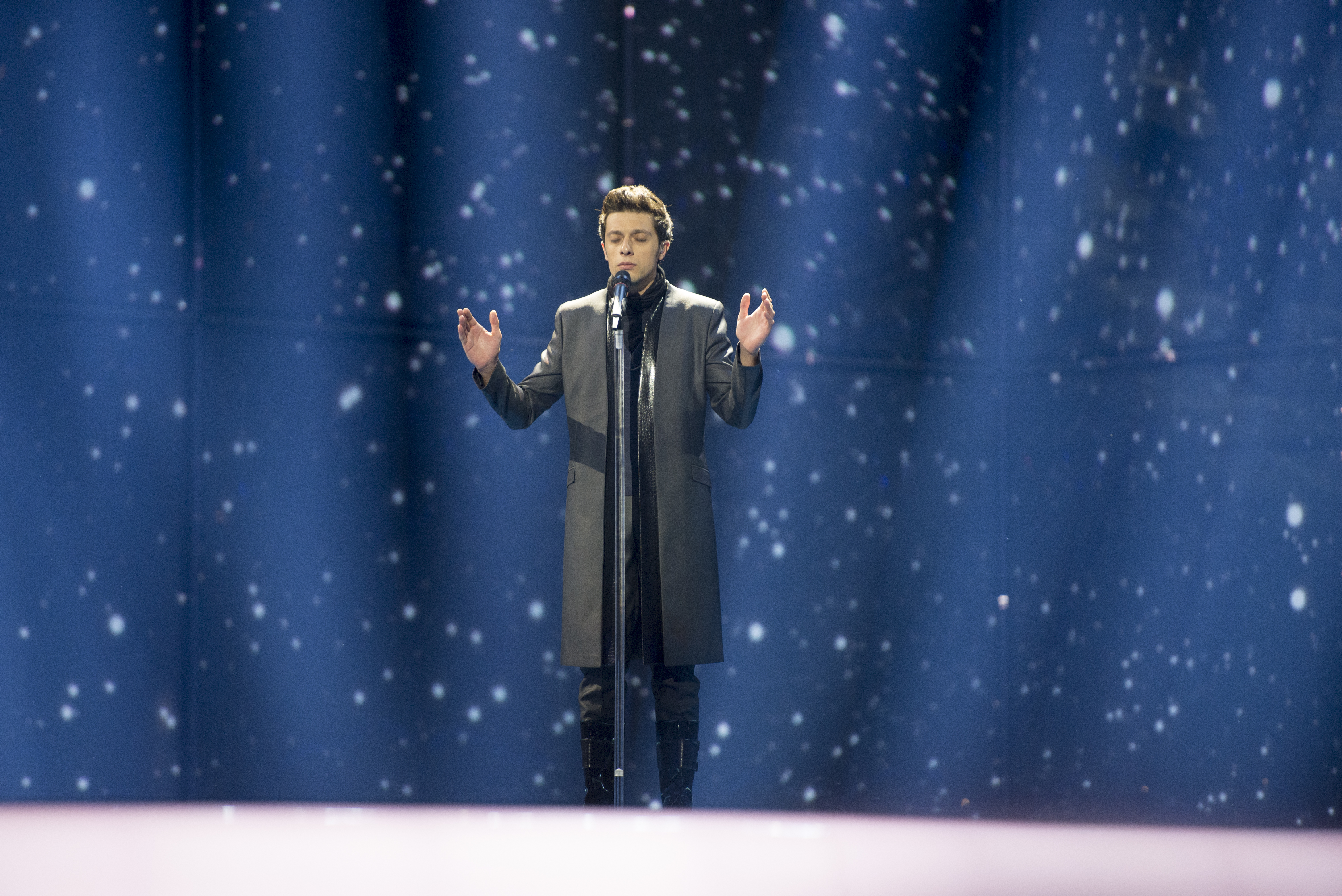 Aram Mp3 representing Armenia with the song "Not Alone" during the first dress rehearsal of the first semi final of the Eurovision Song Contest 2014 Copenhagen. (Help translate this text)